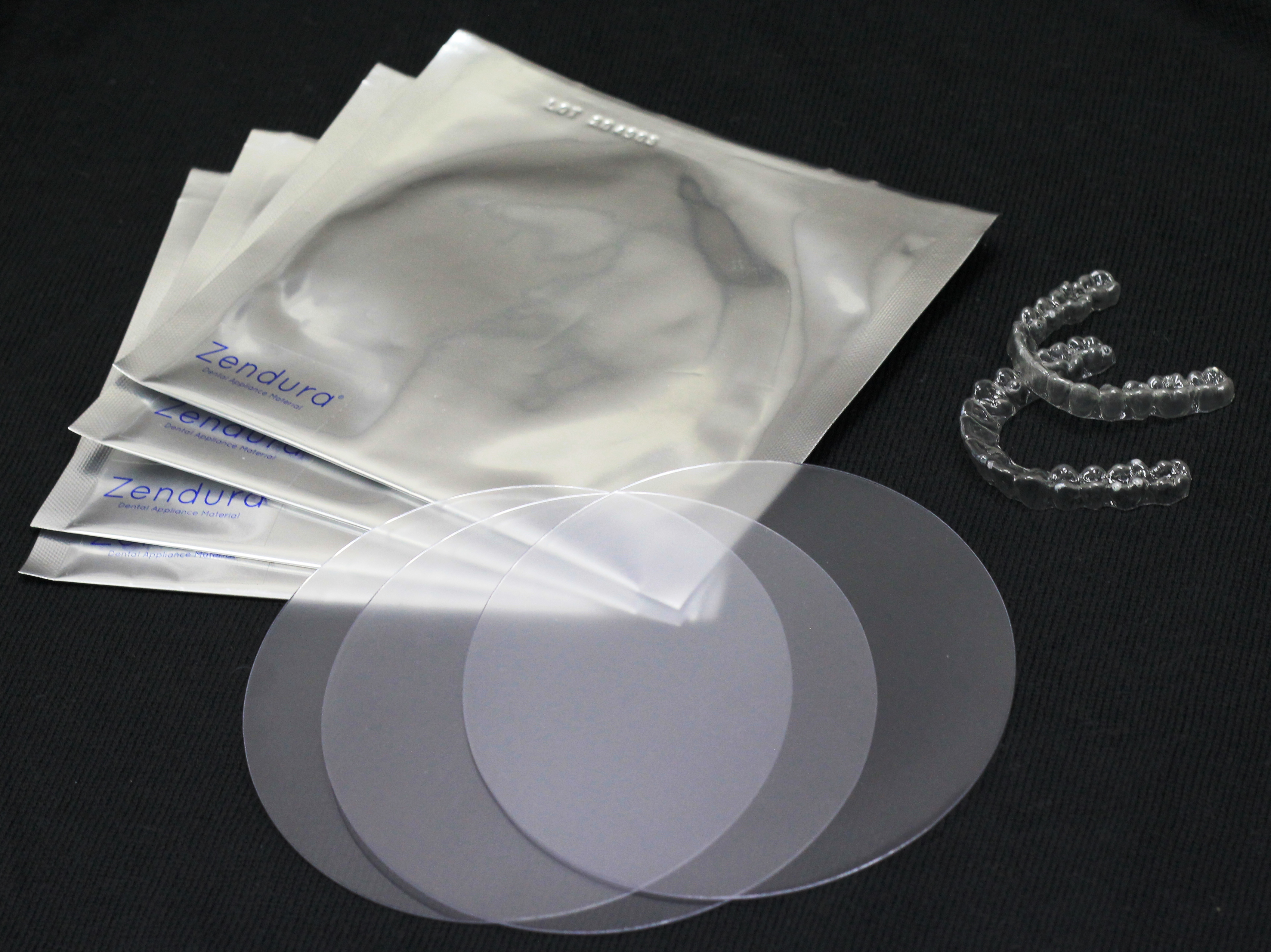 Zendura clear dental appliance material with thermoformed clear retainers.